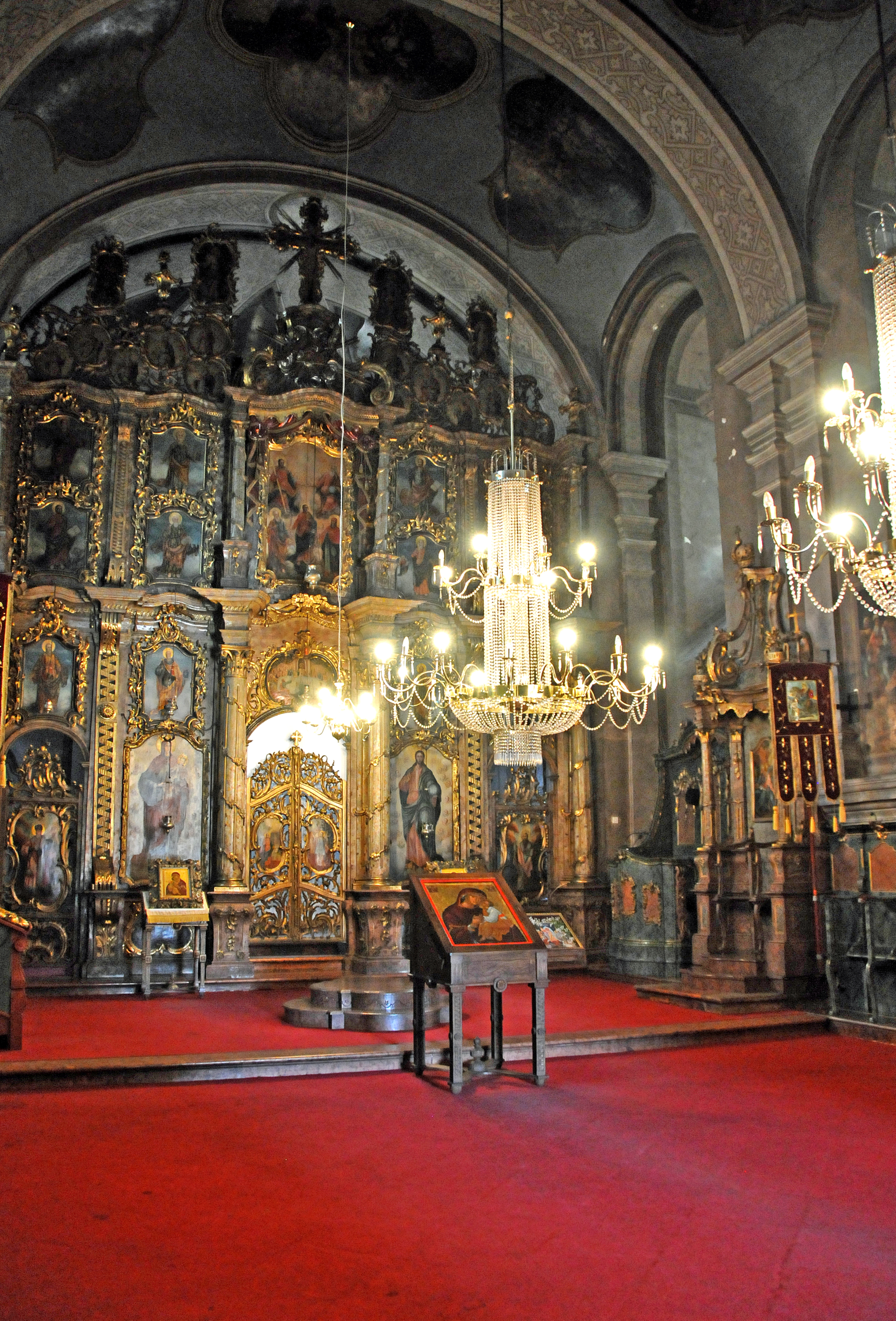 PLEASE, no multi invitations, glitters or self promotion in your comments, THEY WILL BE DELETED. My photos are FREE for anyone to use, just give me credit and it would be nice if you let me know, thanks - NONE OF MY PICTURES ARE HDR. The icons on the north and south doorway are very different, together with the icons on the archpriest's throne. After the installing the bells, the iconostasis and some other minor works this church acquired its present appearance. Prominent people were buried in the churchyard. There is evidence that the church excited in 1731. The temple of that time was made of sticks, mud and straw. The construction of the present church began around 1765. The particular beauty of this temple makes its iconostasis with its carving of The Virgin Mary's Throne, the archpriest's throne and church furniture of the rare beauty, done by the domestic wood-carvers.